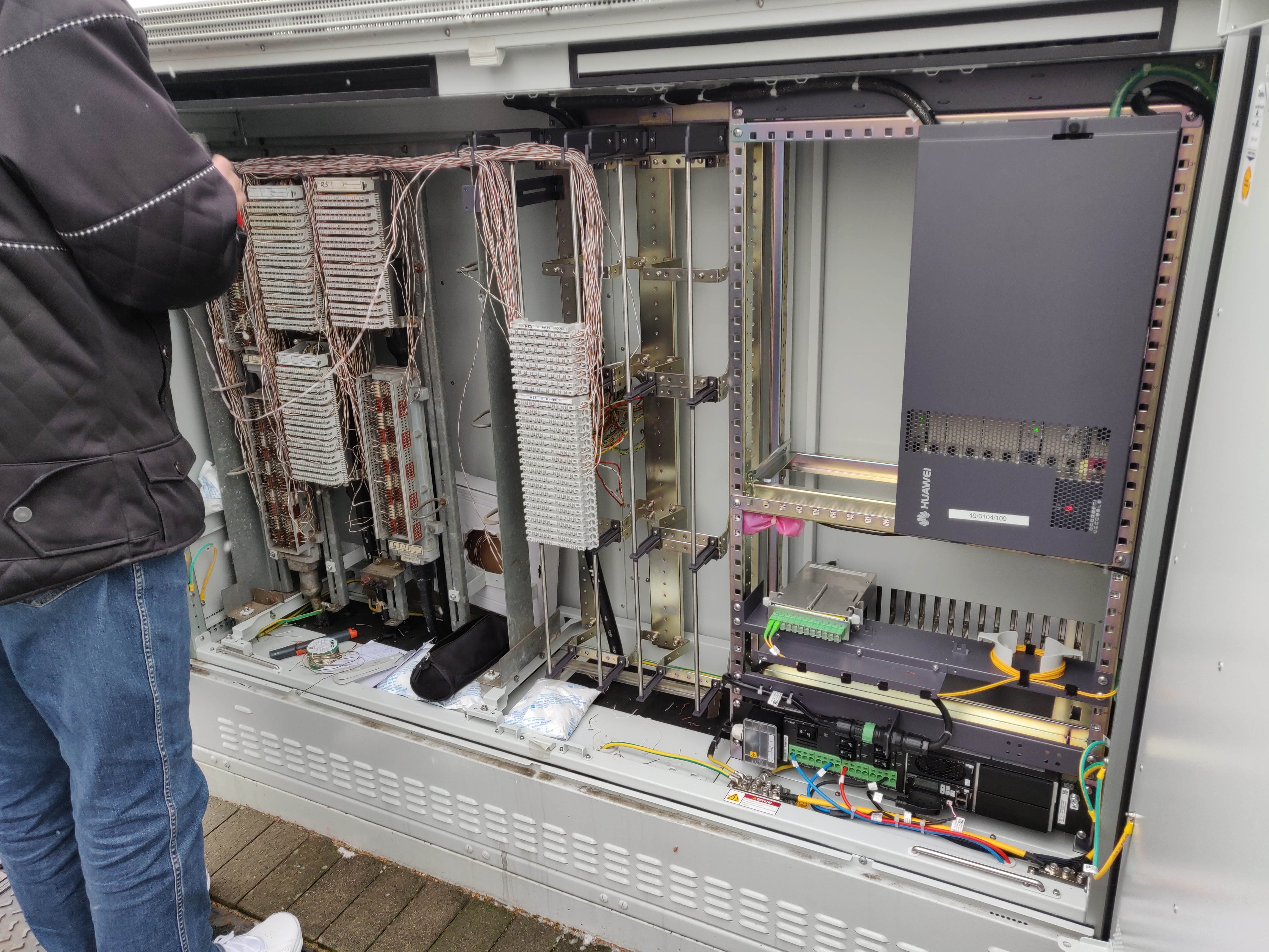 Connected with 2 GPON fibers provides VDSL lines to 3-4 apartment blocks in 63179 Obertshausen, Germany